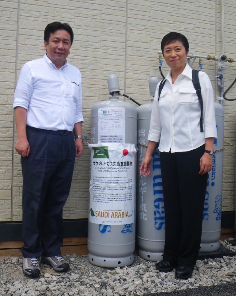 Yukio Edano and Kiyomi Tsujimoto during inspection visit to Kesennuma, Miyagi.